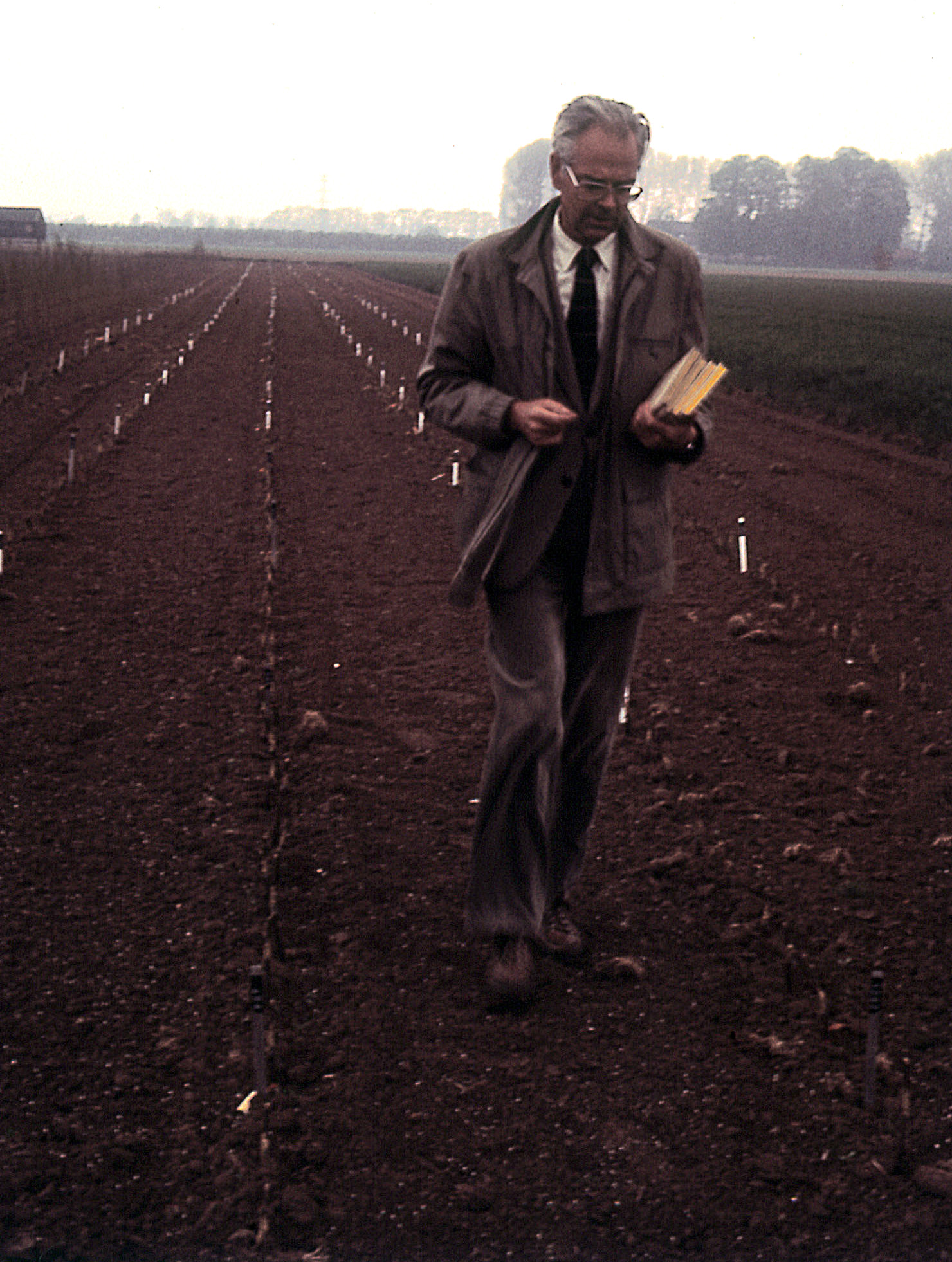 H.M.Heybroek in experimental field - elm trial Wageningen - DORSCHKAMP 1984.05.15. (photo: Mihailo Grbić)